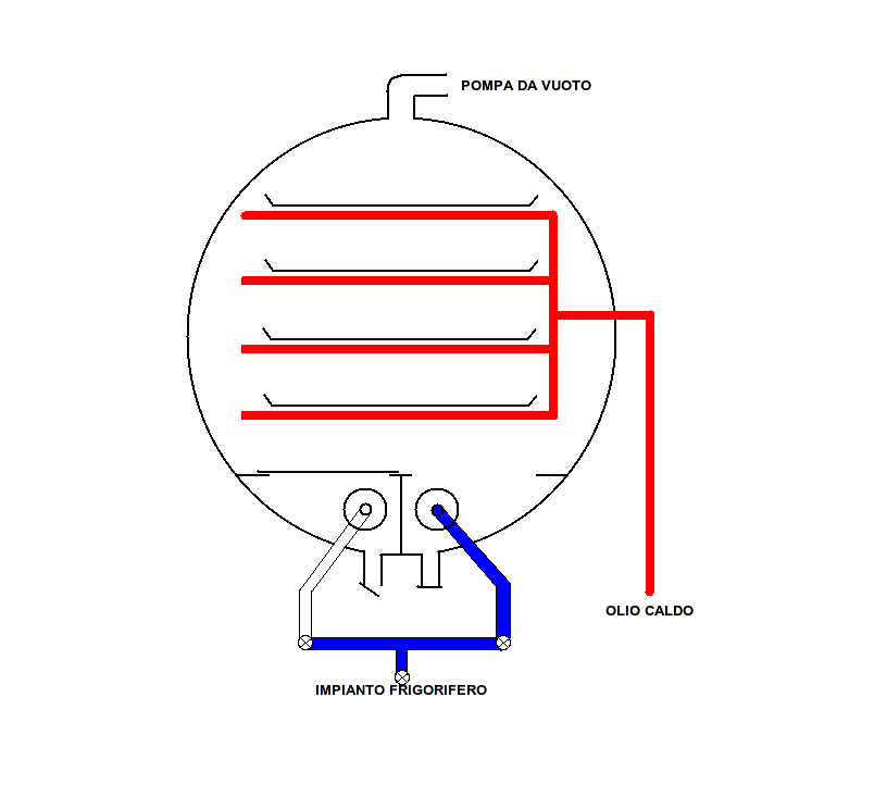 Scheme of industrial freeze-dryer